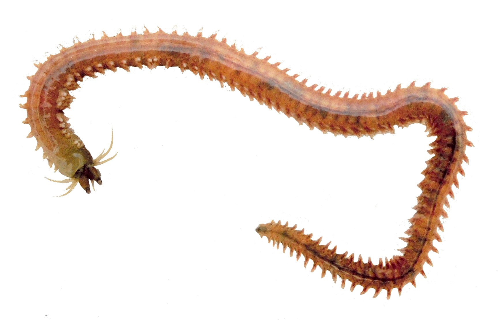 Polychaeta